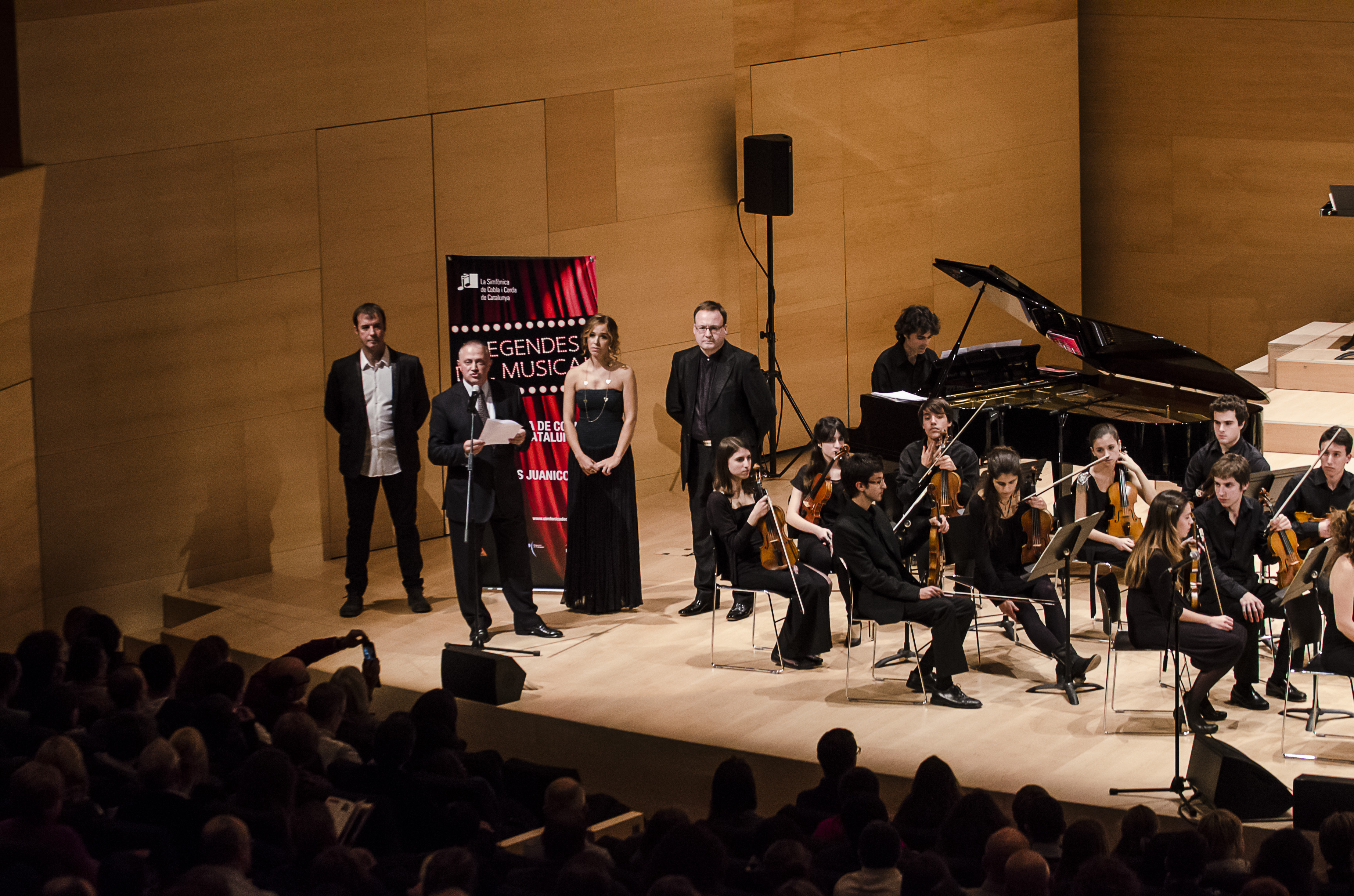 SCCC (Orquesta Sinfónica de Cobla y Cuerda de Cataluña) Concert November 2013 Josep Lagares, Beth